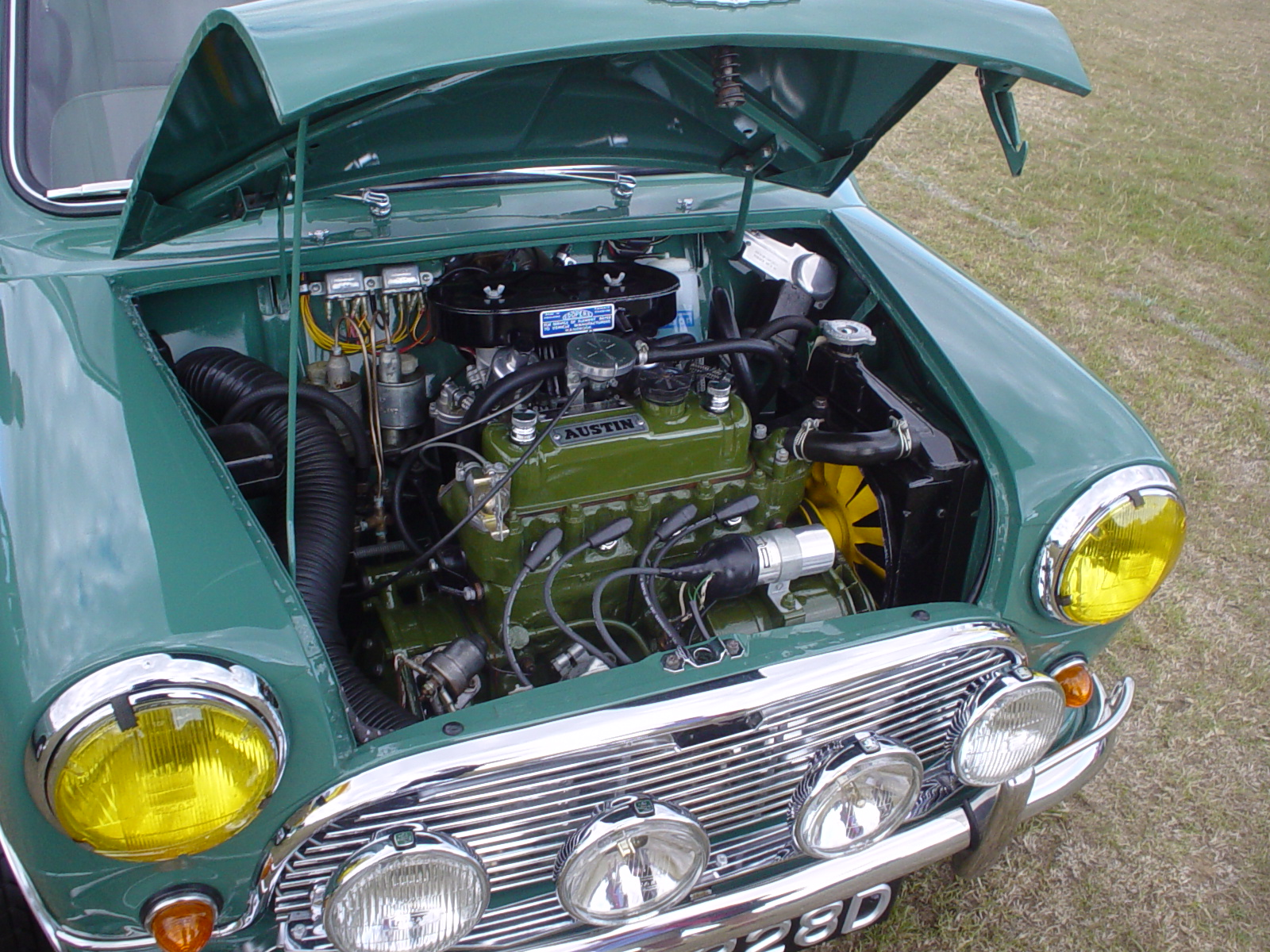 Mini Engine - Very clean